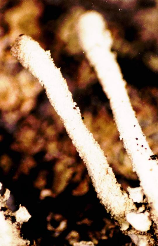 Cladonia floerkeana (Fr.) Flörke, 1828 (photograph of a herbarium specimen taken through a dissecting microscope (x20) showing podetia covered with coarsely granular soredia) Growing on bark of a conifer in open woods, near Crumley Creek, off US-68, Cheboygan County, Michigan, USA; collected and identified by Richard E. Riefner (No. 81-457, 14 Jul 1981); specimen is now in the Lichen Herbarium of the New York Botanical Garden.